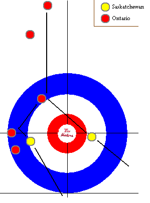 Picture